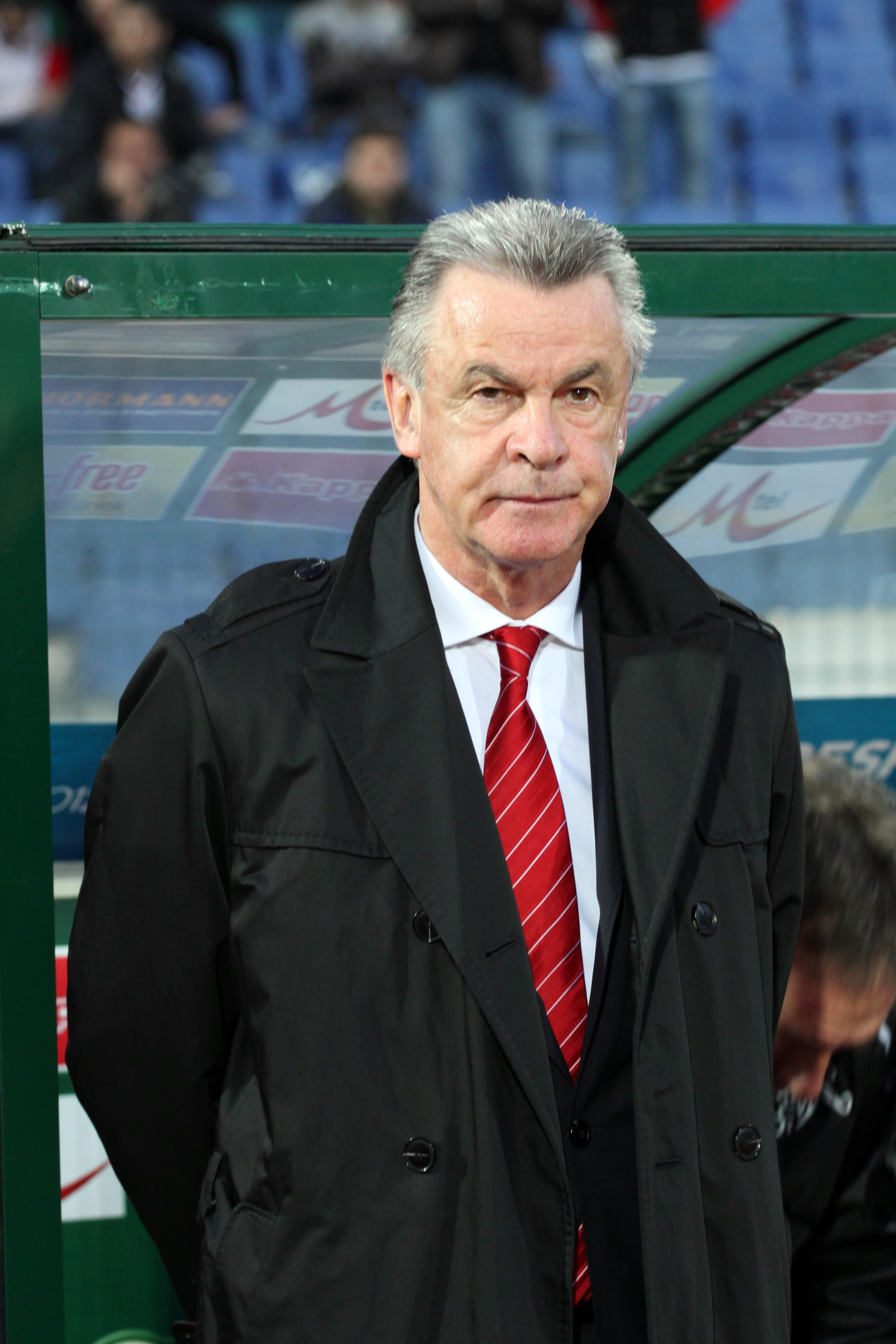 Ottmar Hitzfeld (born 12 January 1949 in Lörrach, Baden) is a German former football player (striker) and manager, nicknamed der General ("the general")